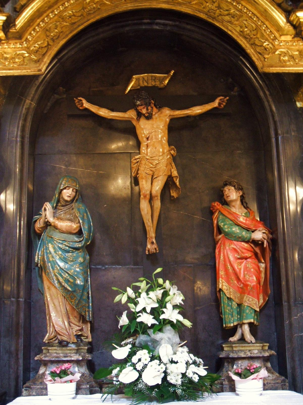 Calvario de la Capilla del Santo Cristo, en el transcoro de la Catedral del Salvador (La Seo) de Zaragoza (Aragón, España)